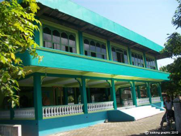 Masjid Al Muttaqin Margosari tampak depan